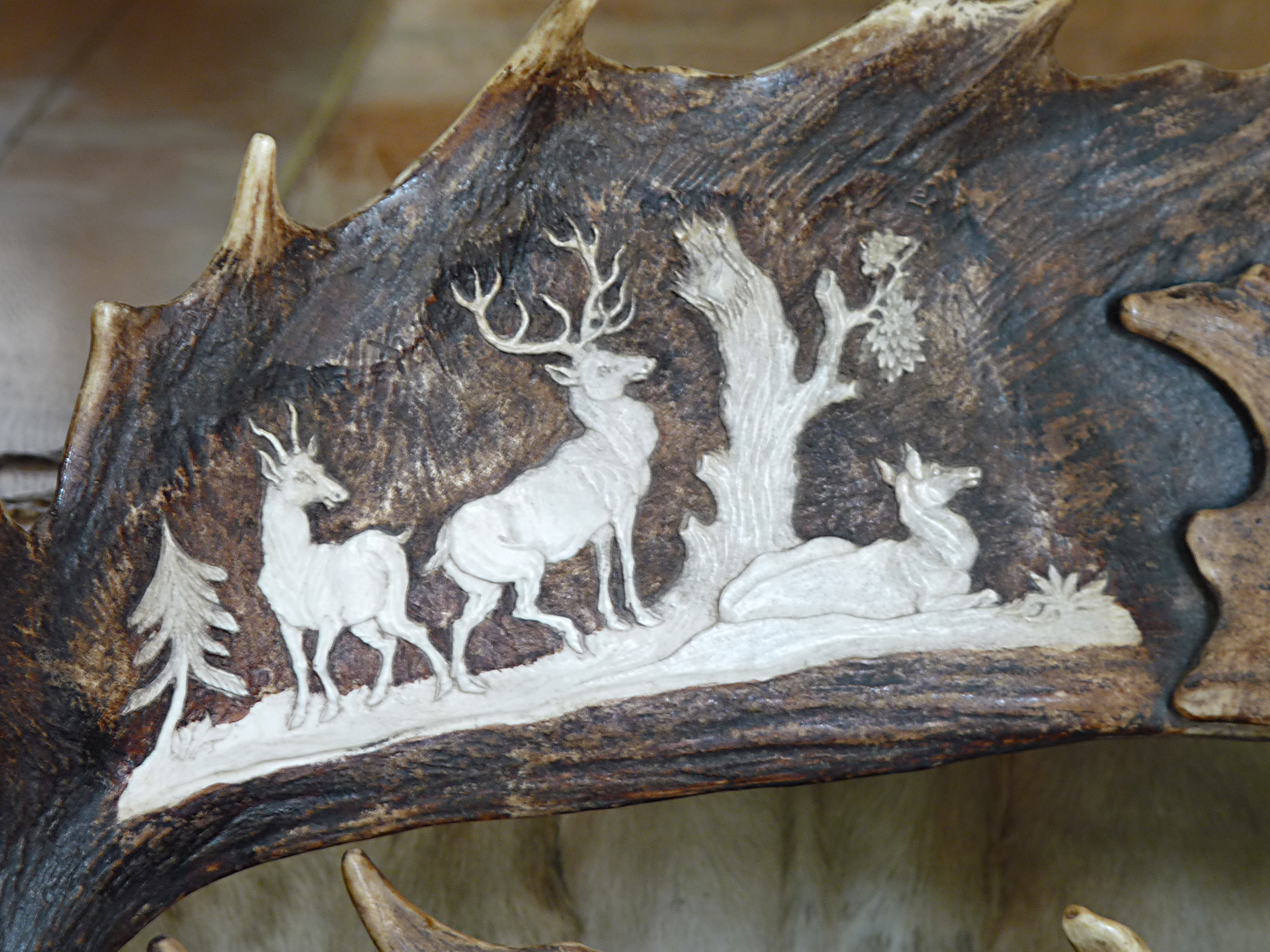 Antler furniture detail at Hunting Lodge Ohrada near Hluboká nad Vltavou, Czech Republic